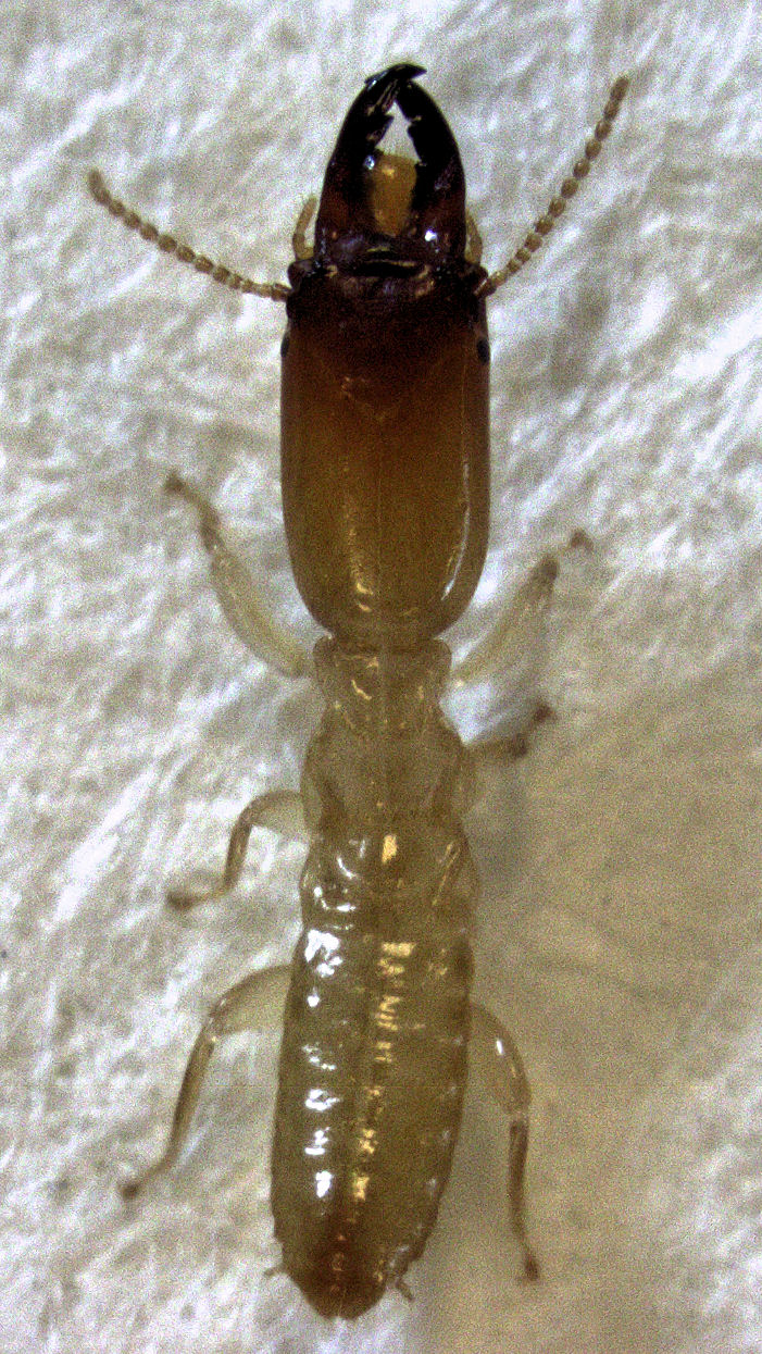 Stolotermes ruficeps soldier